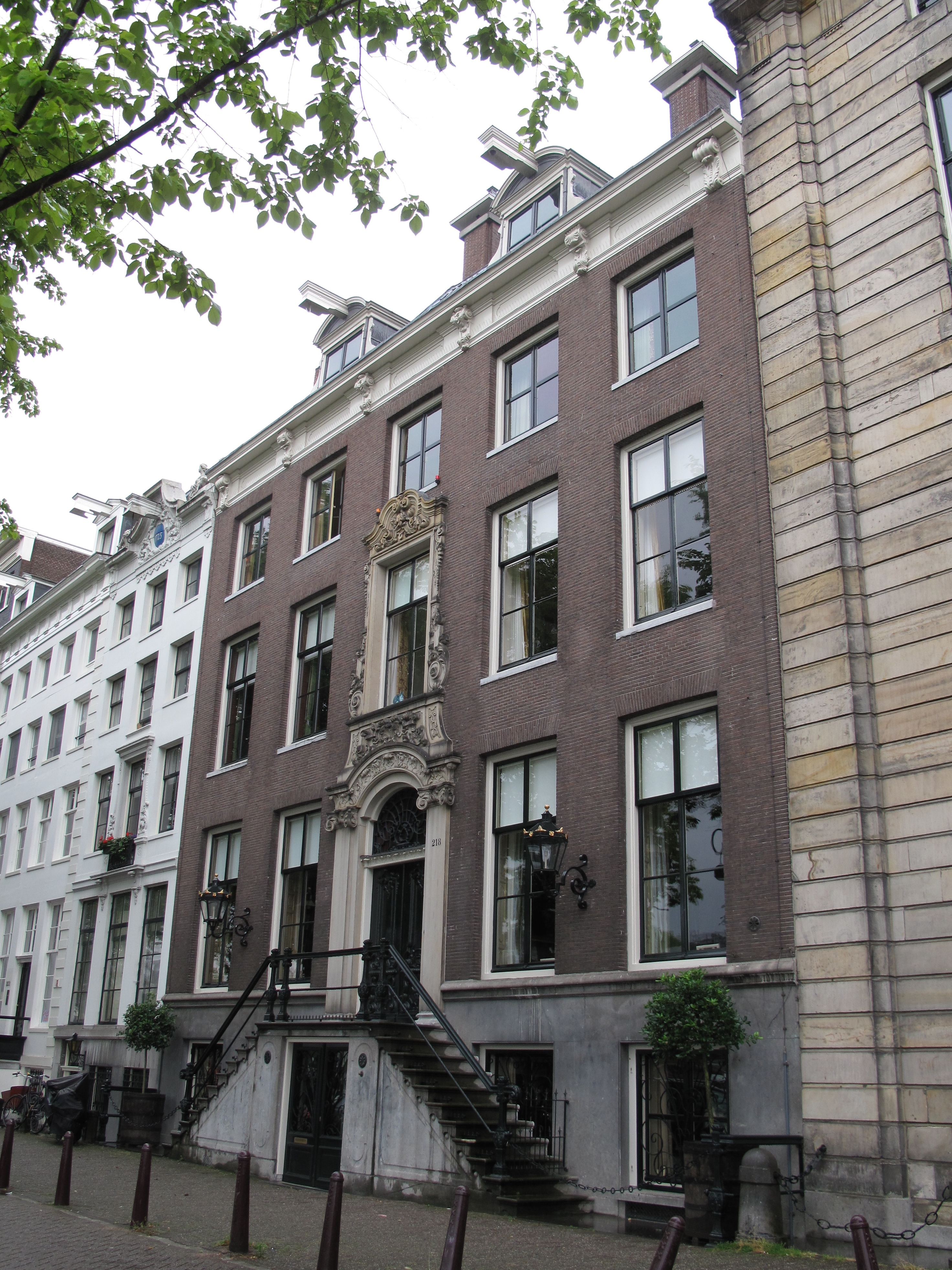 Façade of the building that houses Collectie Six in Amsterdam.